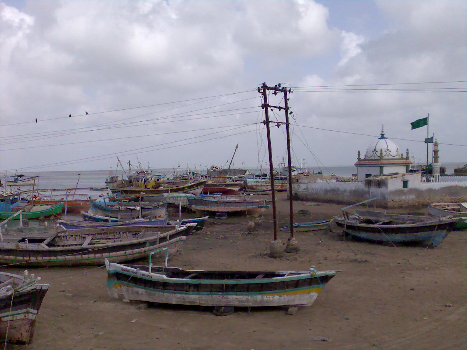 Dwarka Sea Beach, Gujarat ગુજરાતી: દ્વારકાની દરિઆ કિનારા